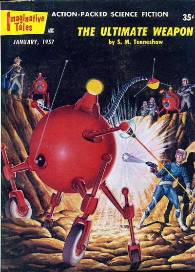 Cover of Imaginative Tales, January 1957